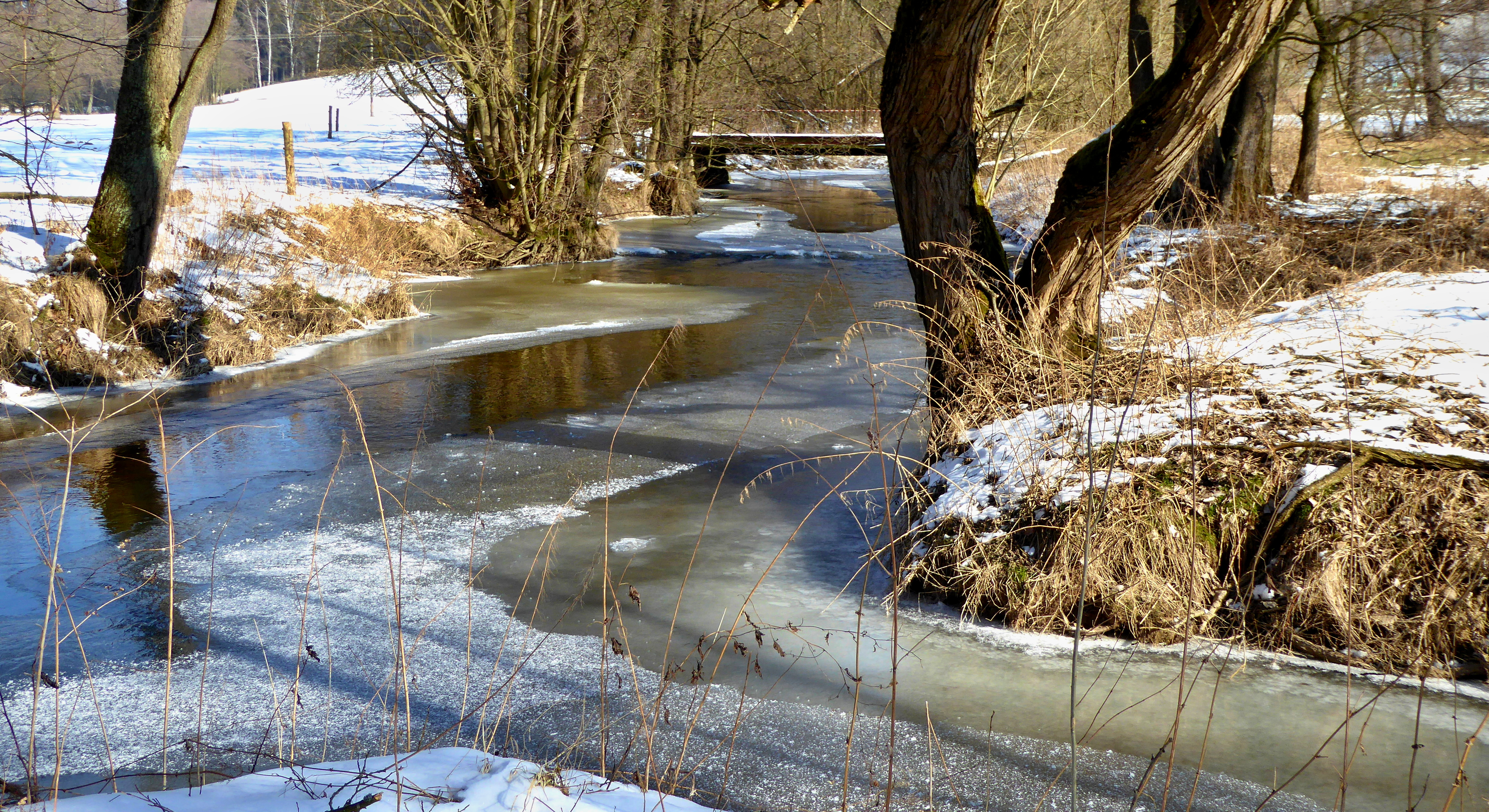 Confluence of Long brook with river Chrudimka (534 m asl) east of the top with name On Merry hill (czech: Na Veselém kopci, 579 m), on interface landscape areas "Stružinecká" knoll hill and "Kameničská" Highlands. Locality with meadows and pastures. The river (on the photo) on the cadastral area with the name Rváčov, wooden bridge in kilometer 78.2 above river Chrudimka, the river flows from the locality of "Králova Pila" (the hamlet of Milesimov). Photo location: Czechia, Pardubice Region, municipality Vysočina, the hamlet of Merry Hill (czech: Veselý Kopec), interface of geomorphological districts with names "Stružinecká" knoll hill and "Kameničská" Highlands.